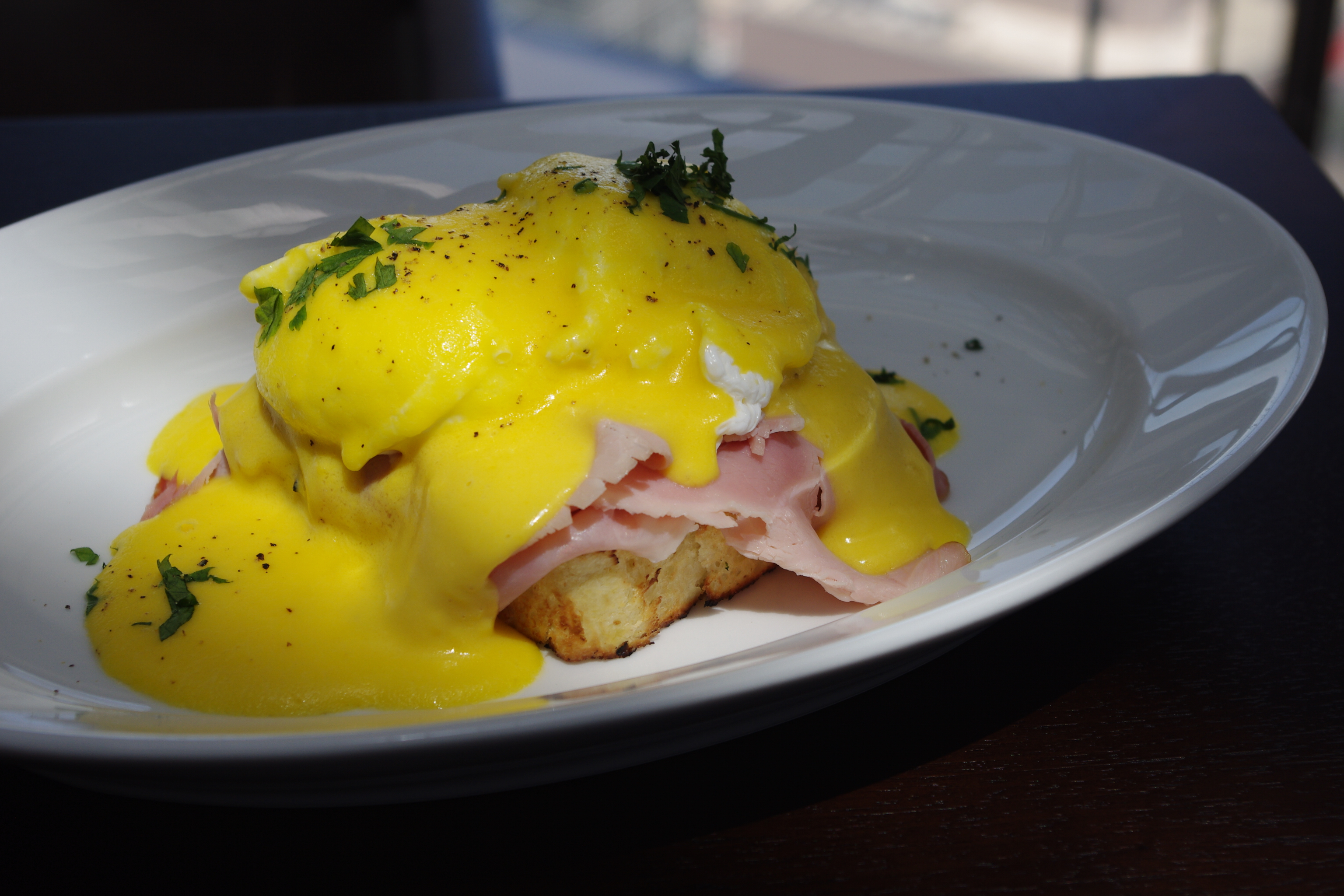 Breakfast in China Grill, Park Hyatt Beijing